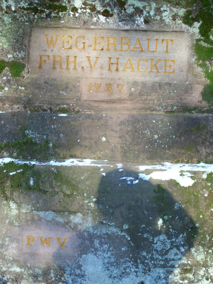 Picture of Ritterstein No 122